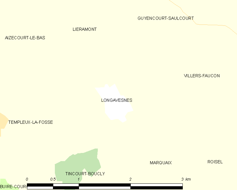 Map of French municipality Longavesnes